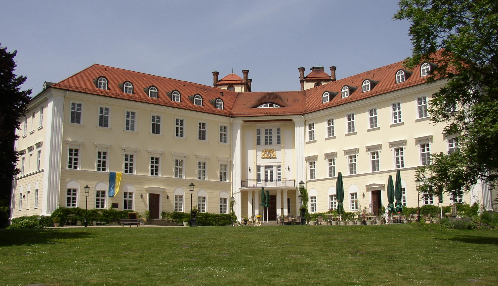 Castle in Lübbenau in Brandenburg, Germany